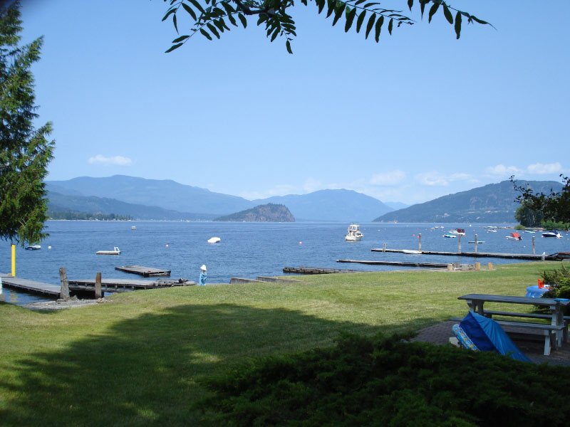 View of Shuswap Lake and Copper Island from Sorrento, British Columbia